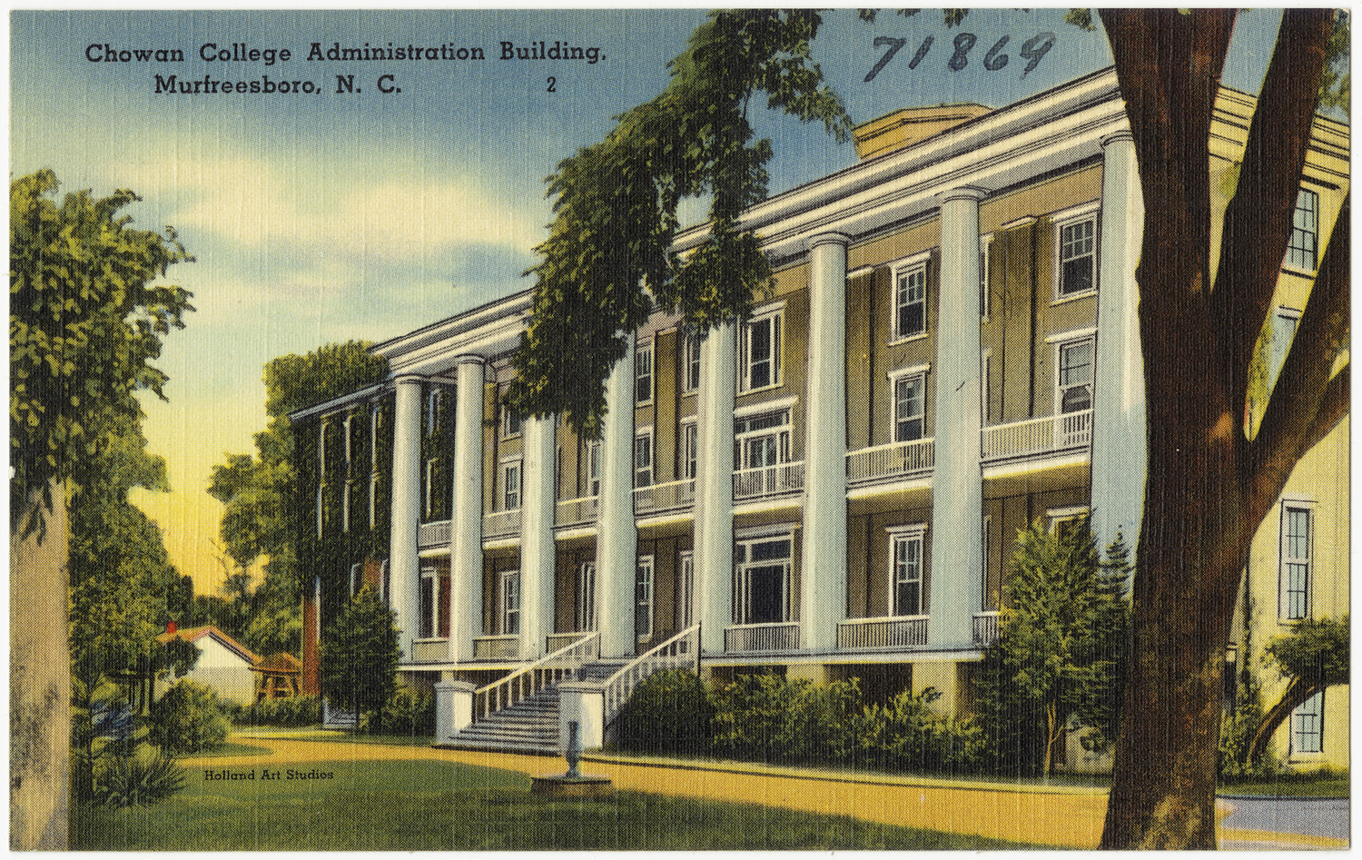 File name: 06_10_016110 Title: Chowan College Administration Building, Murfreesboro, N. C. Created/Published: Pub. by Holland Art Studios, Murfreesboro, N. C.; Tichnor Bros. Inc., Boston, Mass. Date issued: 1930 - 1945 (approximate) Physical description: 1 print (postcard) : linen texture, color ; 3 1/2 x 5 1/2 in. Genre: Postcards Subjects: Universities & colleges Notes: Collection: The Tichnor Brothers Collection Location: Boston Public Library, Print Department Rights: No known restrictions